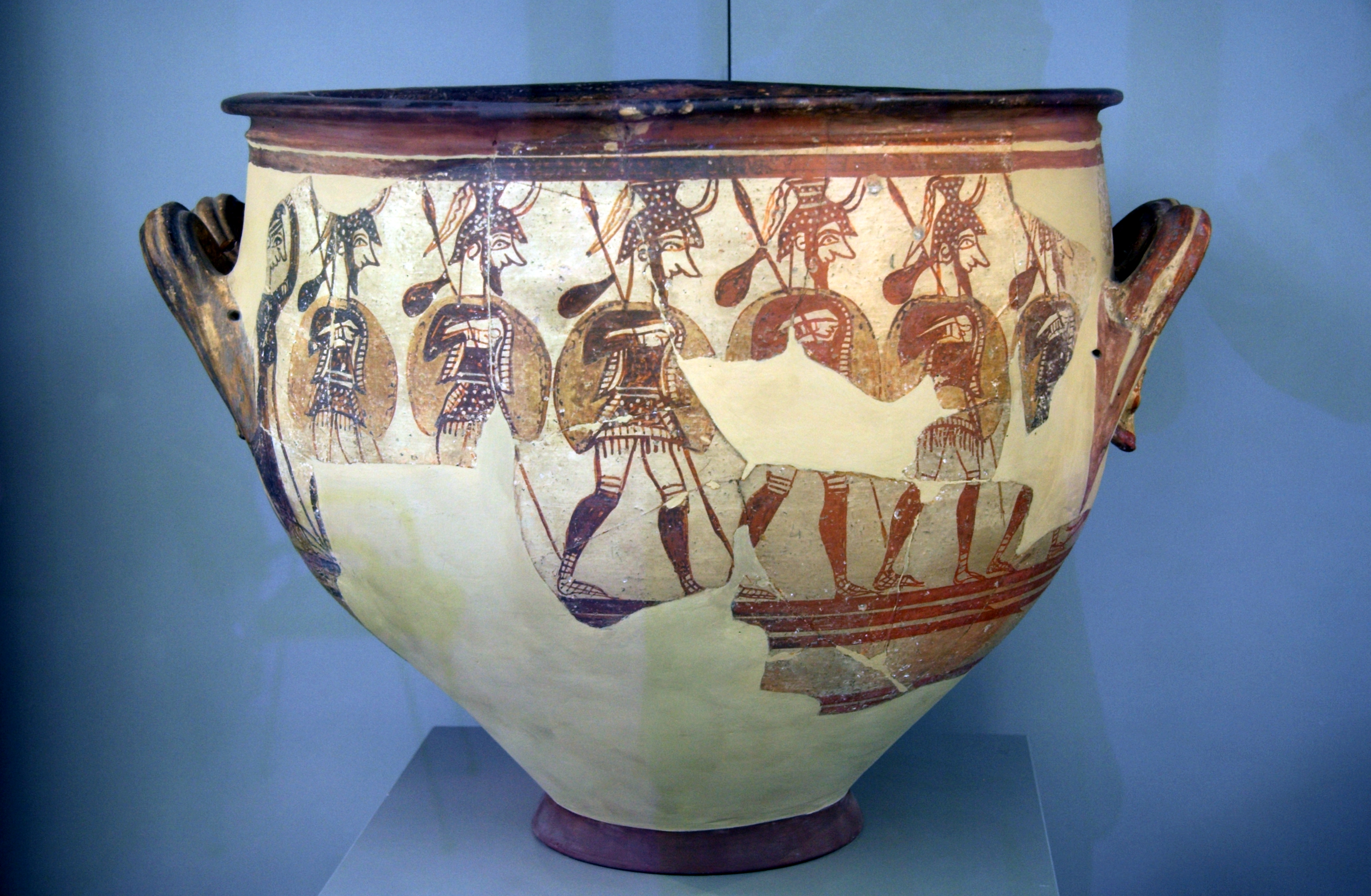 Marching soldiers, painted on the crater of Mycenae, Late Bronze Age, 12 century BC, National Archaeological Museum of Athens, N 1246.